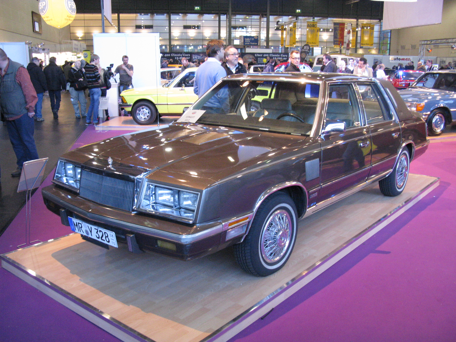 Chrysler New Yorker 2.2 Turbo 1984